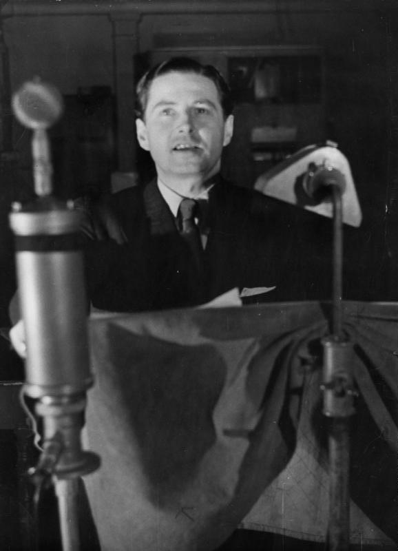 Harry Giese. Speaker of the Deutsche Wochenschau (German Newsreel)